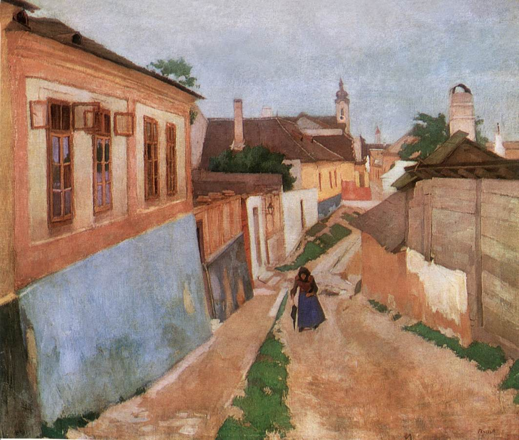 A Street at Vác (1904) oil on canvas, 70 x 50 cm, Magyar Nemzeti Galéria, Budapest